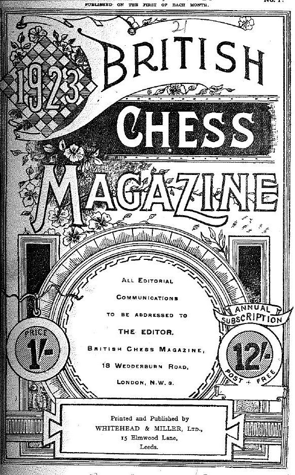 Cover of the February 1923 issue of British Chess Magazine